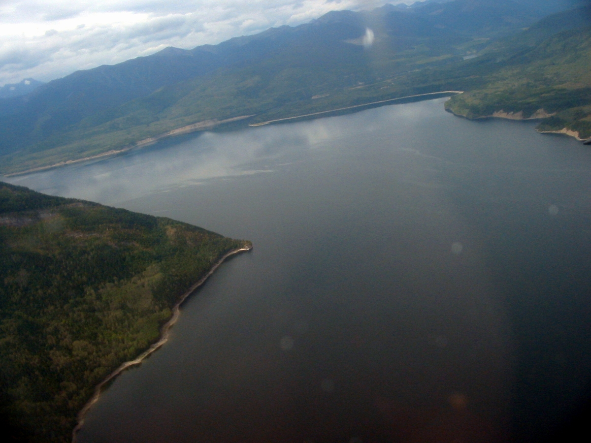 Aerial view of Williston Lake (eastern arm), British Columbia, Canada